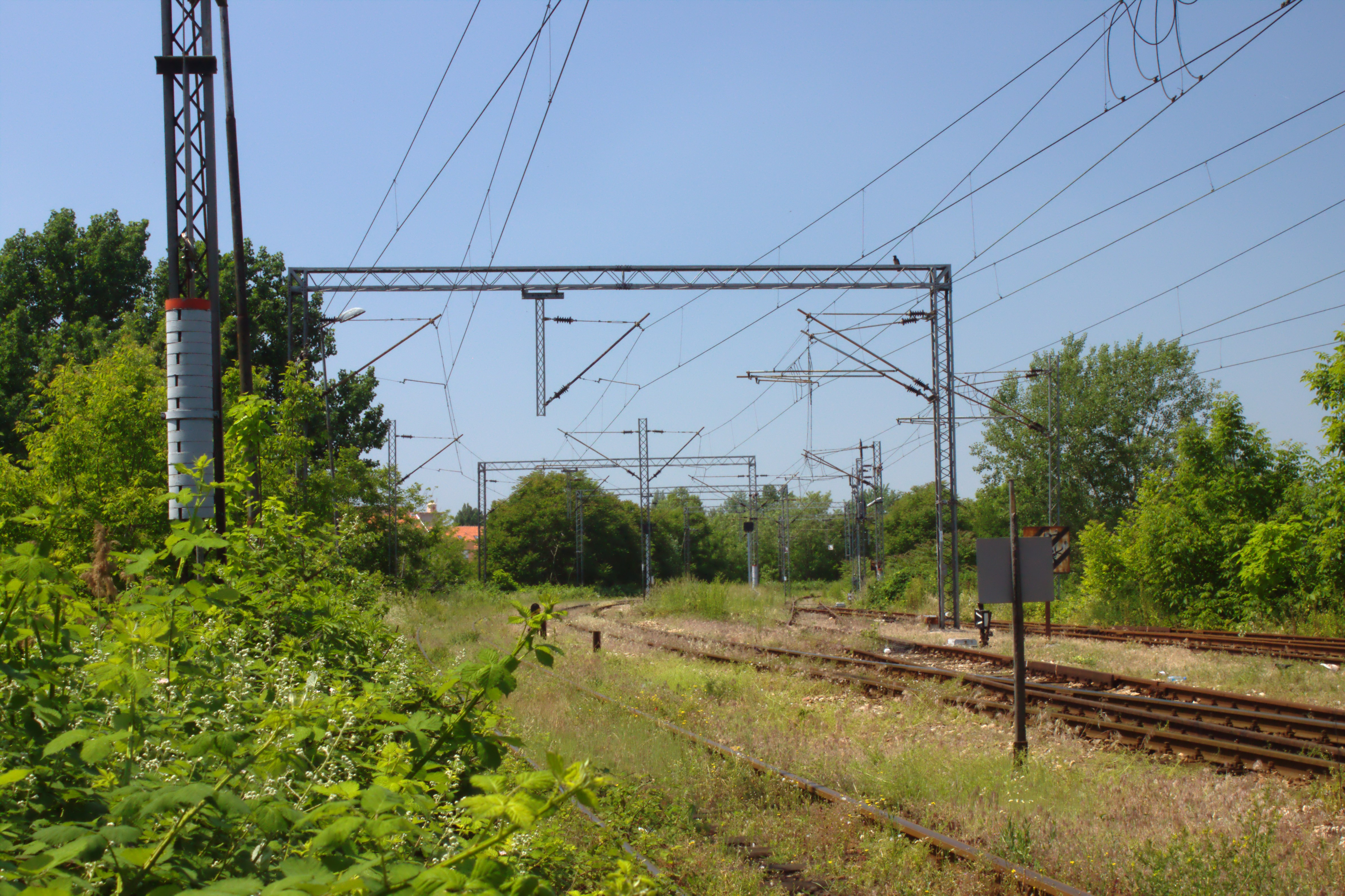 Some signals from the Subotica side of the Novi Sad train station, Serbia